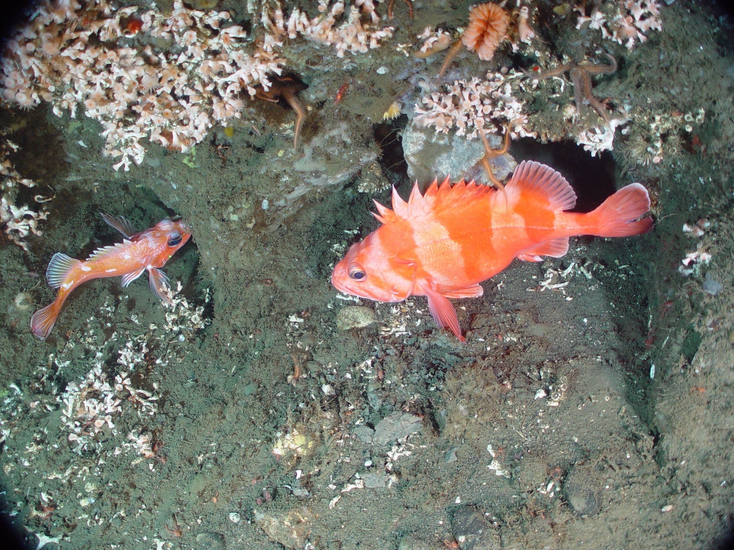 Rosethorn and Redbanded rockfish at the base of the "monolith", a large boulder. Stony corals Lophelia pertusa and Desmophyllum sp. can be seen above the fish.